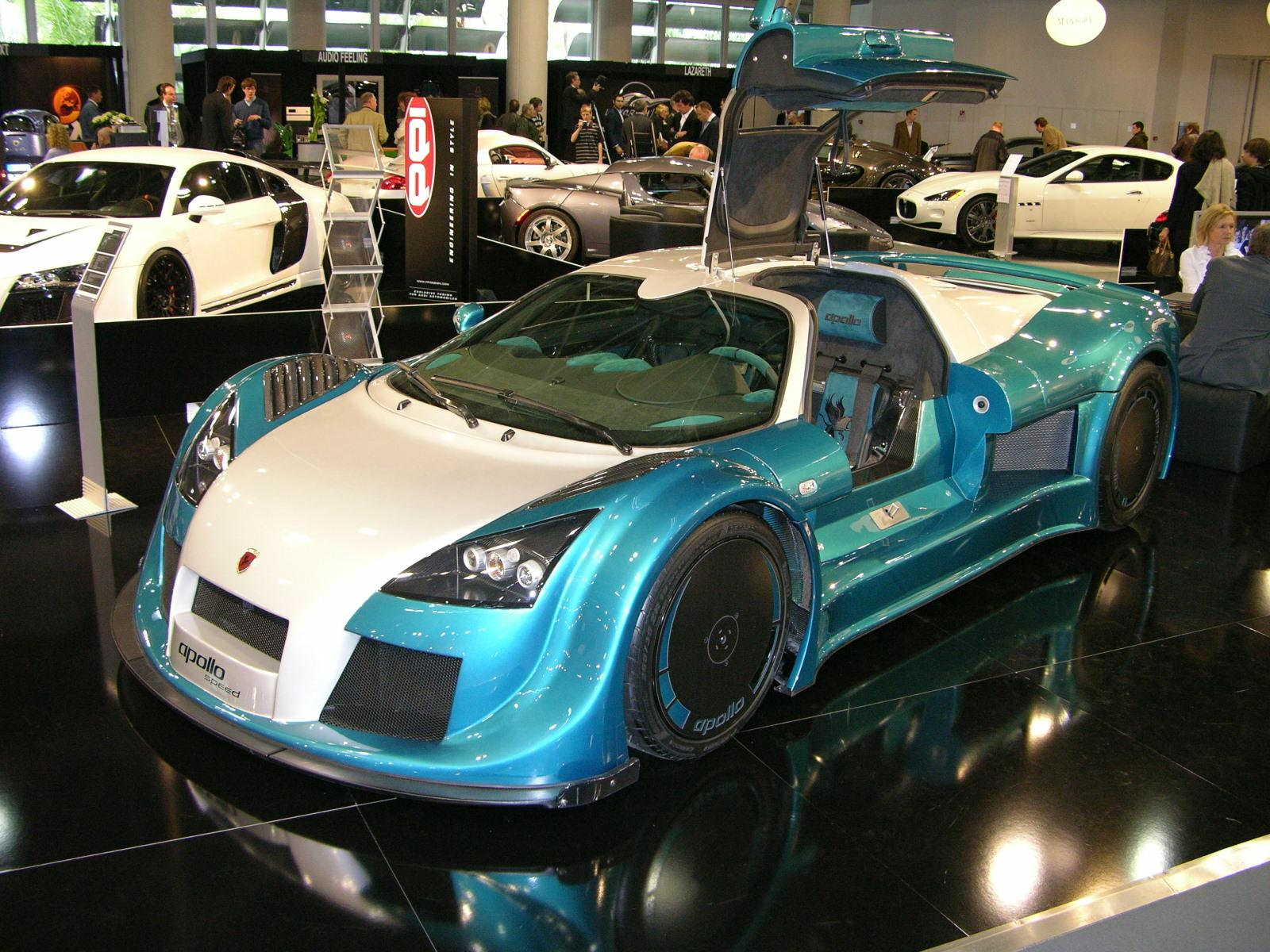 Gumpert Apollo Speed